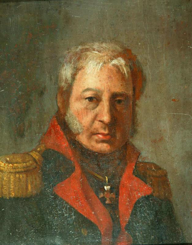 Dmitry Mihailovich Volhovsky (1770 – 07.05.1835)